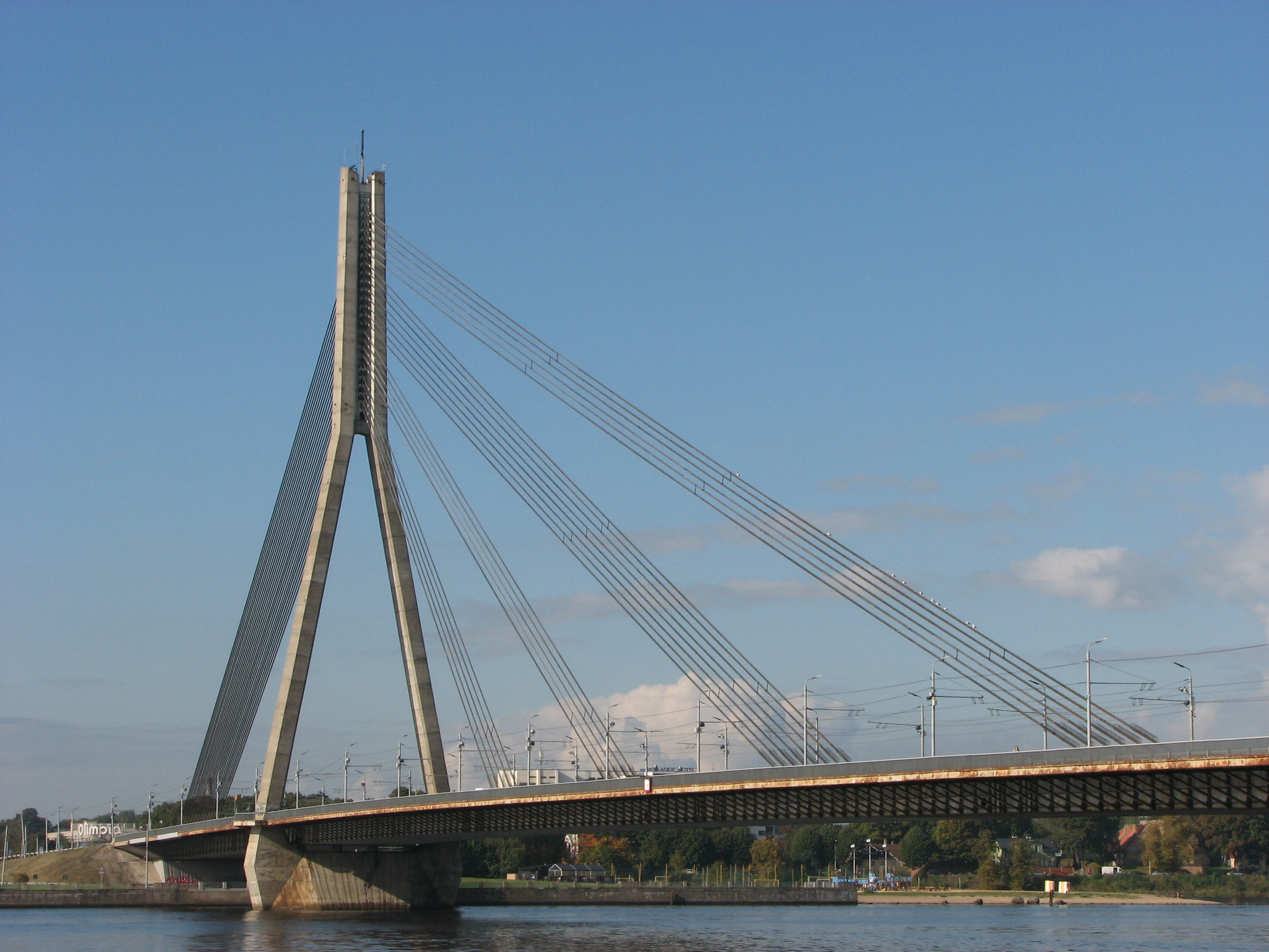 Cable-stayed bridge. Riga (1981).